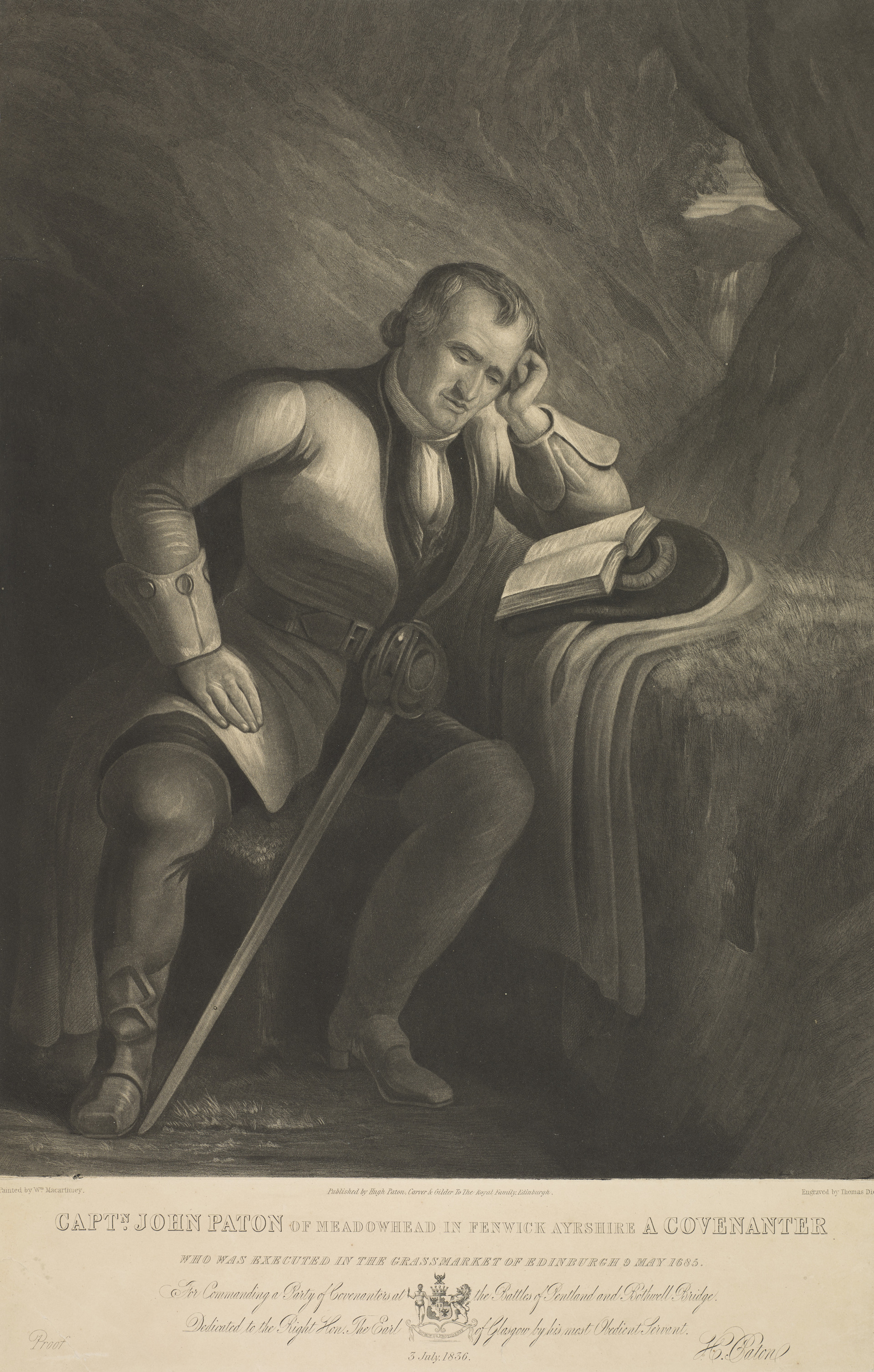 Thomas Dick; after William Macarthney